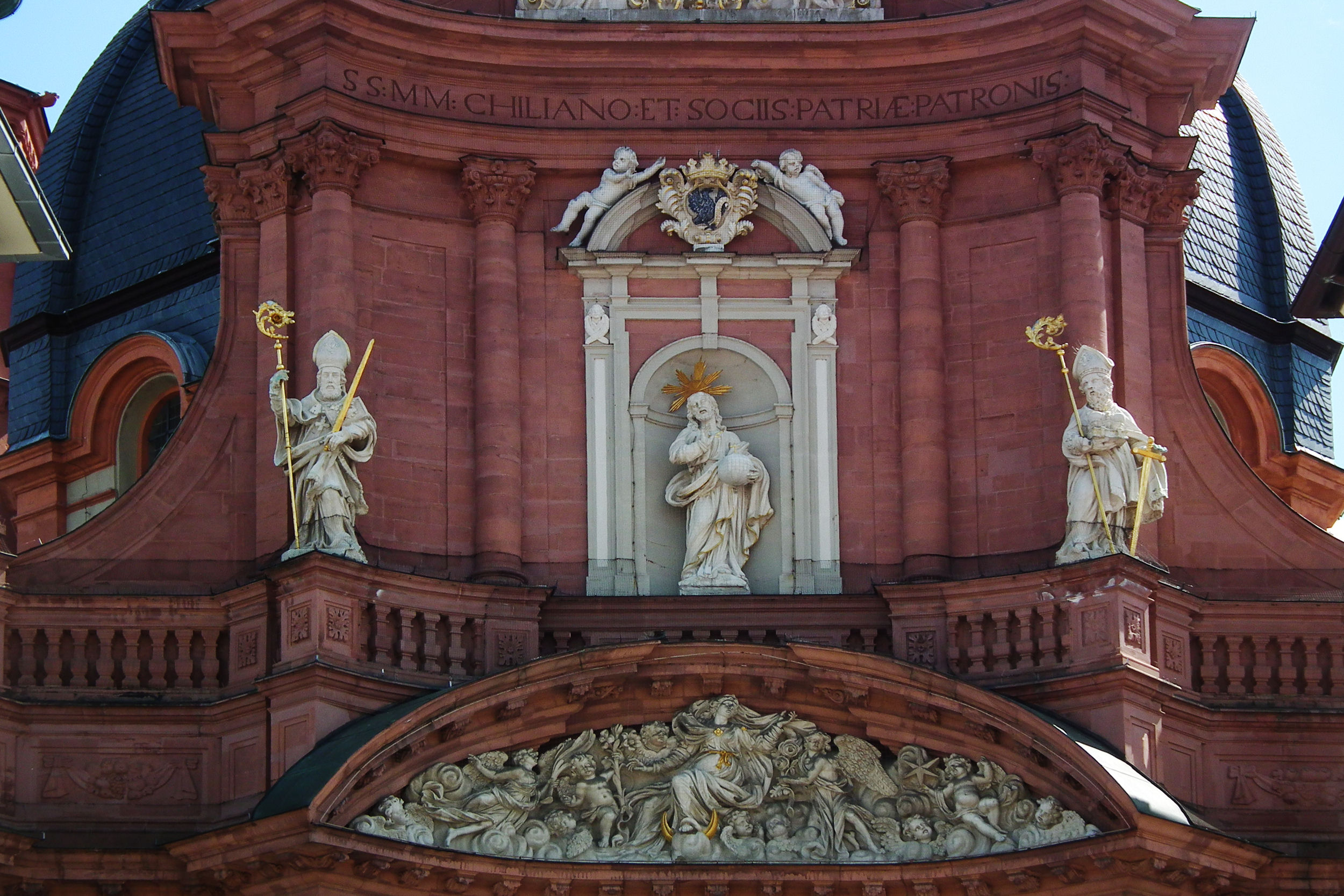 Neumünster Collegiate church, Würzburg Native nameKollegiatstift NeumünsterLocationWürzburg, Upper Franconia, GermanyCoordinates49° 47′ 37.68″ N, 9° 55′ 53.69″ E Authority control : Q881050 VIAF: 136144523 GND: 4140656-4 NKC: olak20181009708 institution QS:P195,Q881050